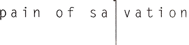 The logotype for Pain of Salvation, used on "Road Salt One" and "Road Salt Two".